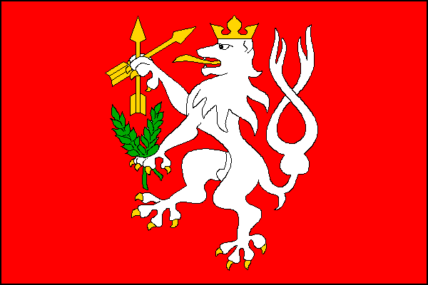 Municipal flag of Kostelec nad Orlicí town, Rychnov nad Kněžnou District, Czech Republic.